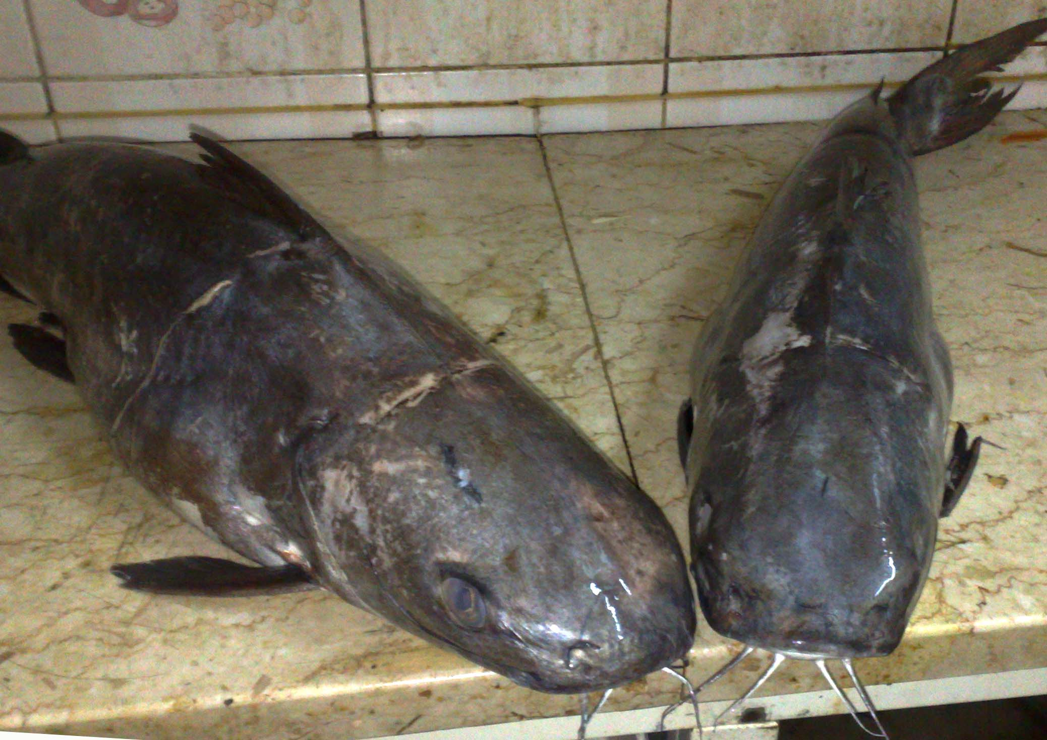 Eatta or koori